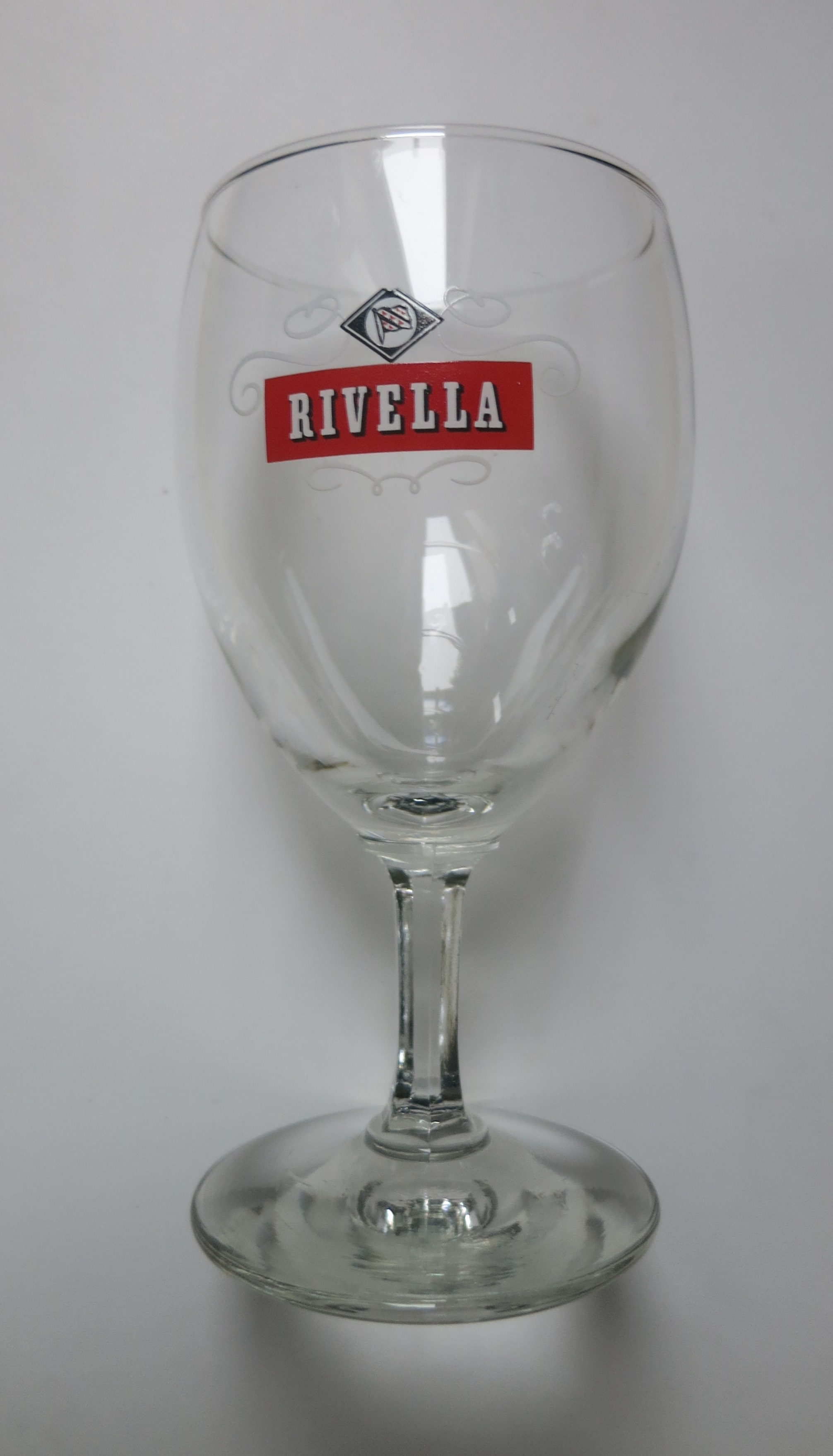 glass for the Swiss softdrink Rivella, issued by the Dutch producer Coöperatieve Condensfabriek Friesland, who had a bottling plant in Wolvega (1957-1984)